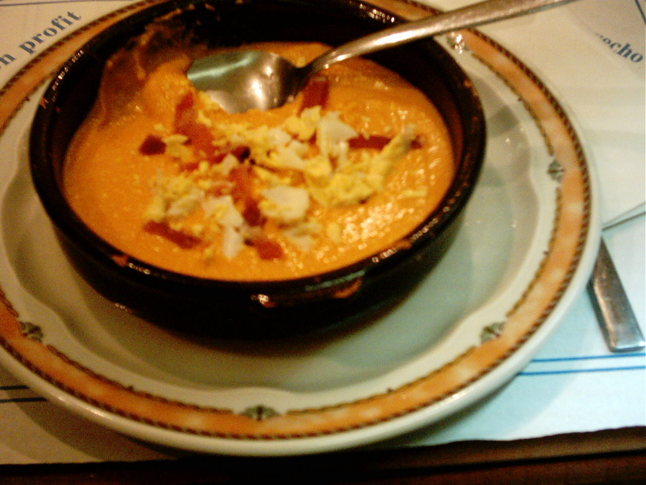 Salmorejo at Cordoba, Spain.